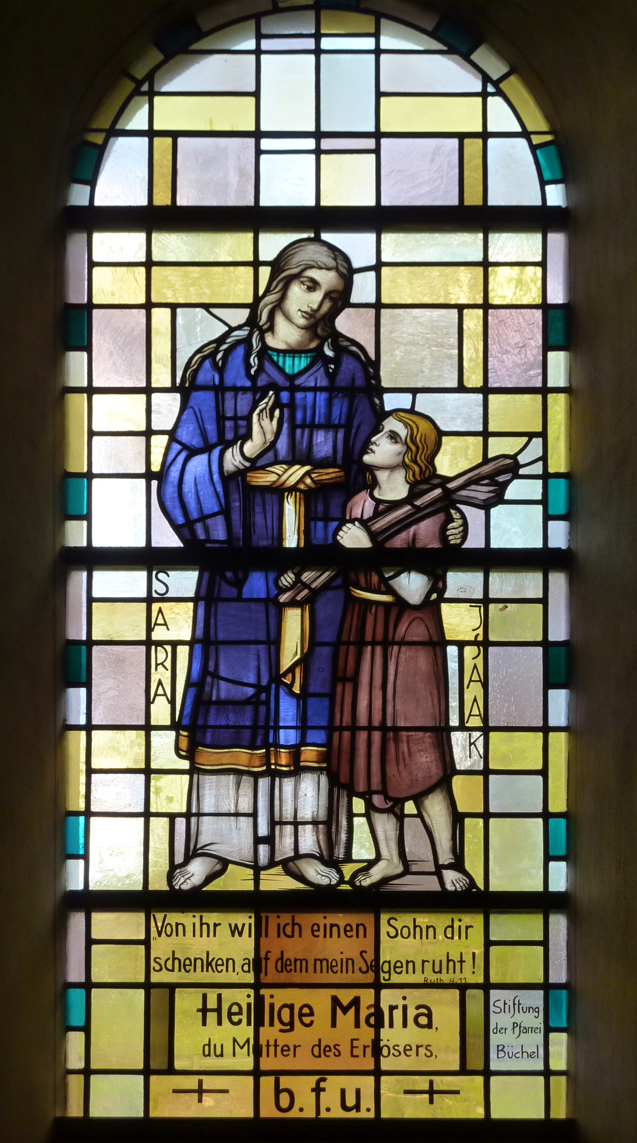 Maria Martental Wallfahrtskirche110106 with perspective correction—Sarah and Isaac